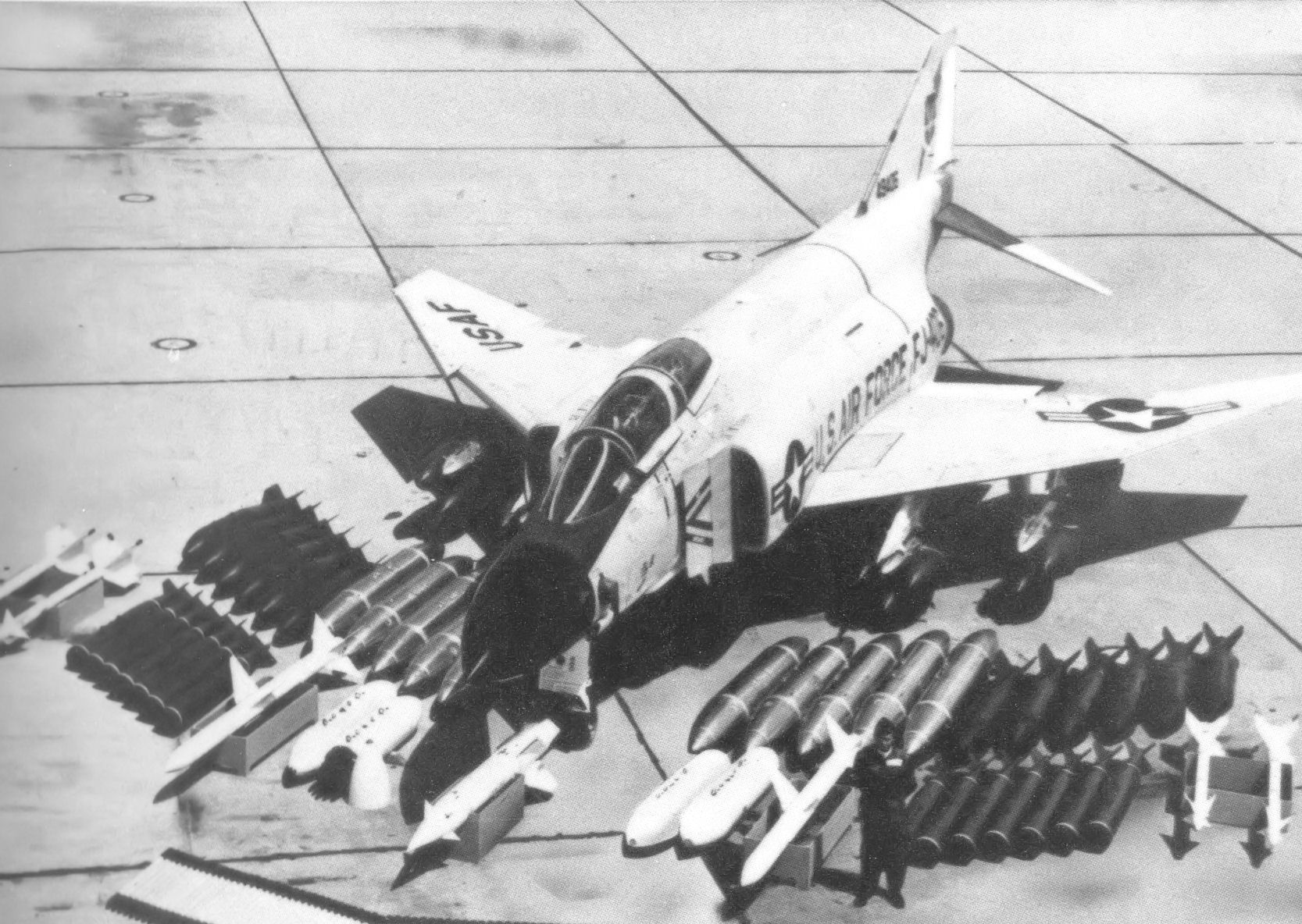 A U.S. Air Force McDonnell F-110A Spectre (borrowed USN F4H-1 Phantom II) from the 12th Tactical Fighter Wing, MacDill AFB, Florida (USA) in 1964, on display showing weapons capability.